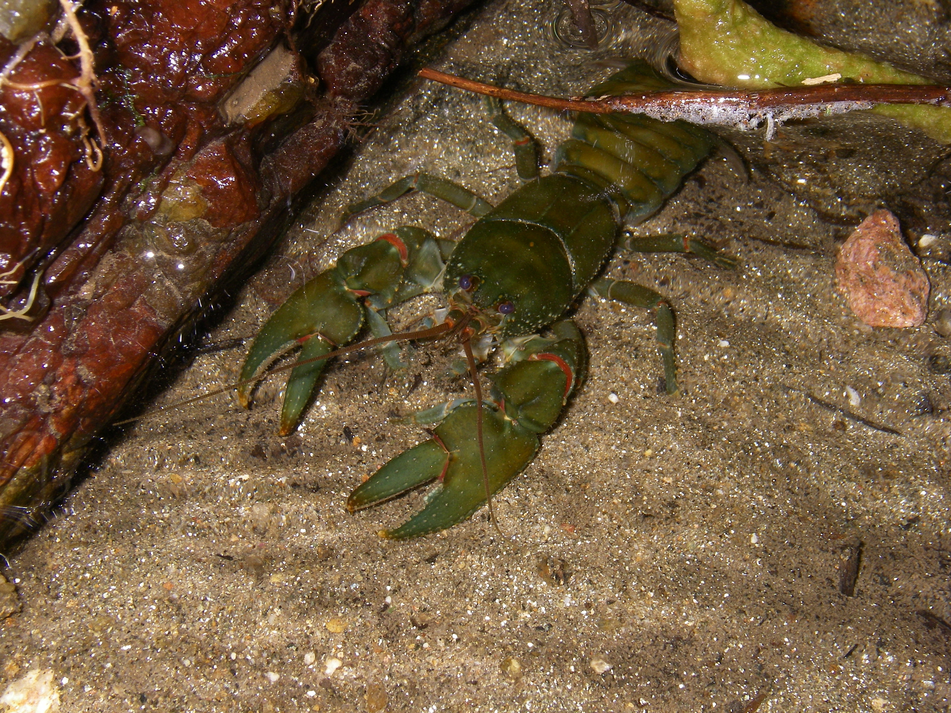 Astacoides betsileoensis(Parastacidae) from a small stream at Bibiango, Ranomafana National Park, Madagascar